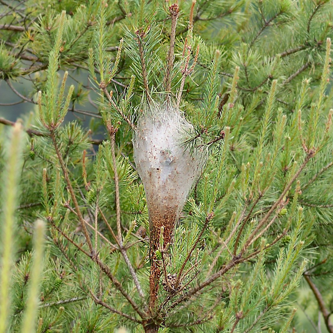 Detail of silk 'tent' of the Pine Processionary Moth (Thaumetopoea pityocampa) atop a Scots Pine (Pinus sylvestris). The caterpillars are covered in hairs which can provoke a strong skin rash (hypersensitivity). Coteaux de St Victor, Dordogne, France.